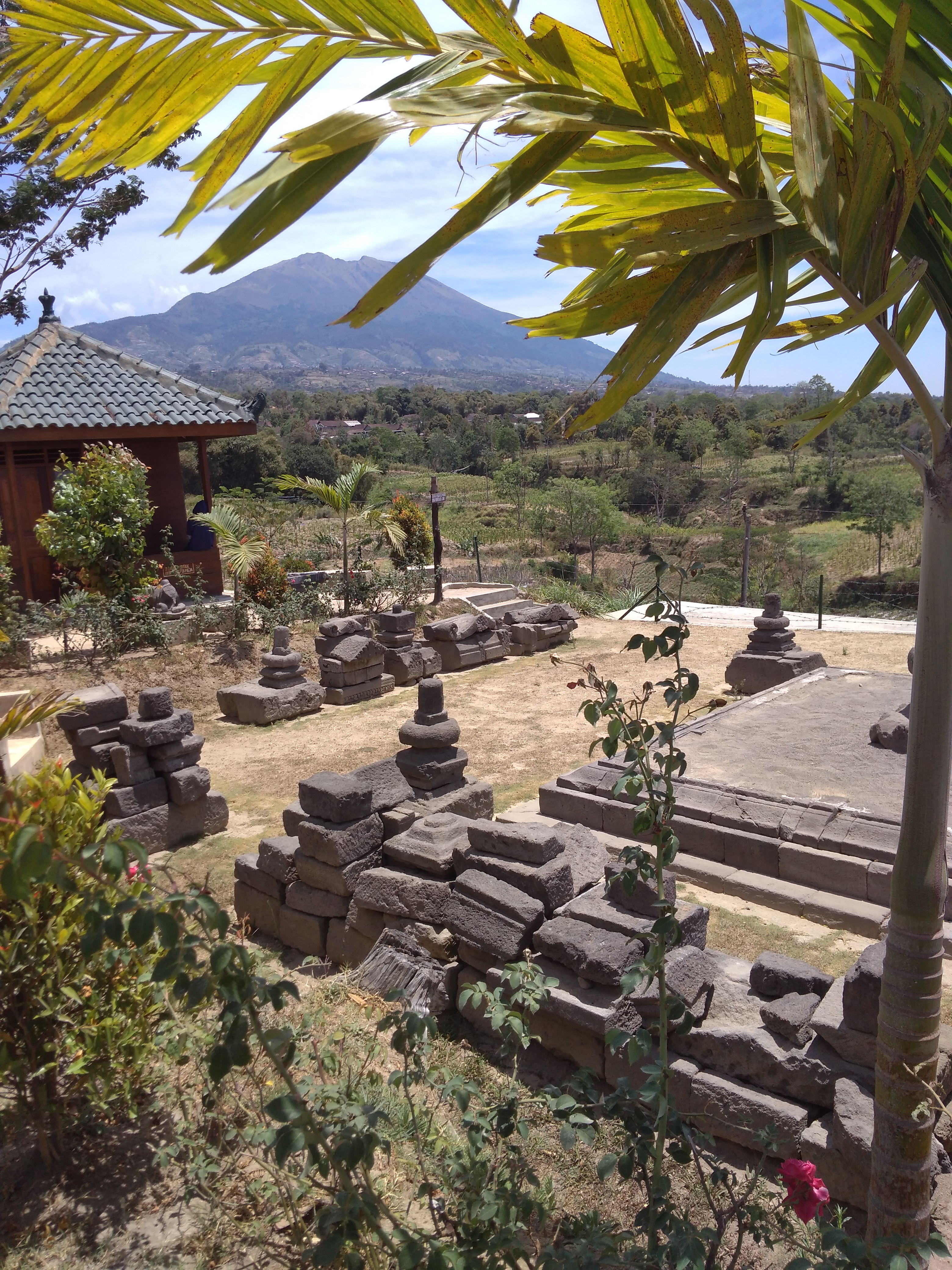 Ruin of Candi Sari Cepogo at Boyolali